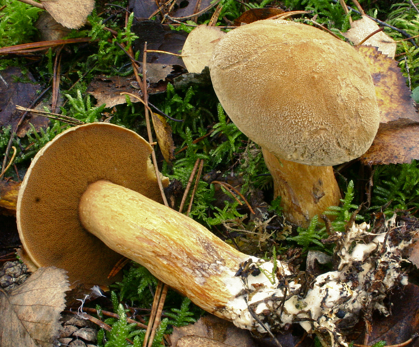 Suillus variegatus in la Forêt des Trois Pignons near Fontainebleau, France.